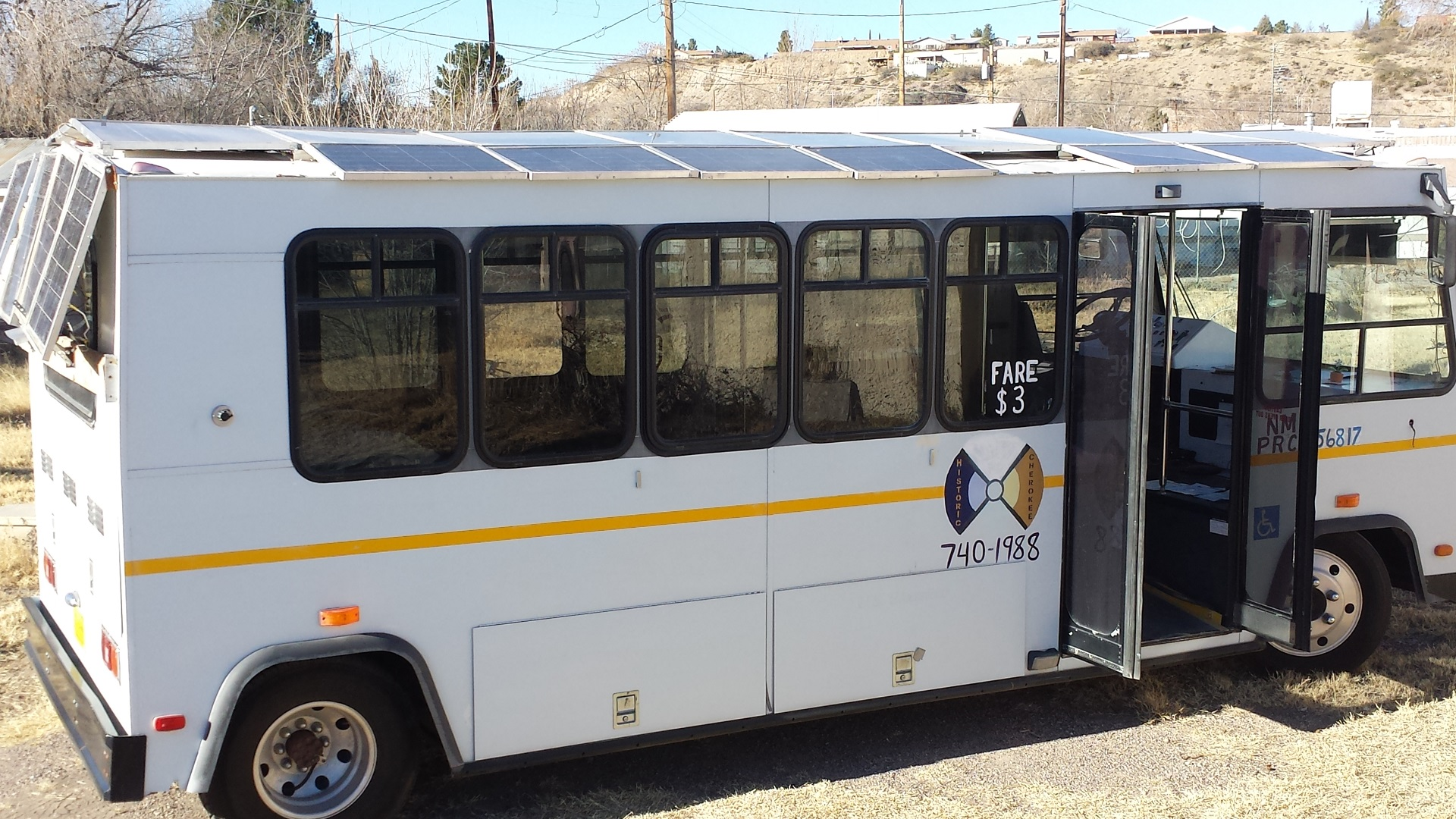 The Solar Buzz Public Transport since 2015 in Truth or Consequences, NM.